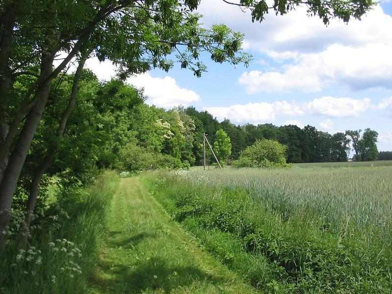 Field nearby the village Gömnigk, an incorporated part of the town Brück in Brandenburg, Germany.